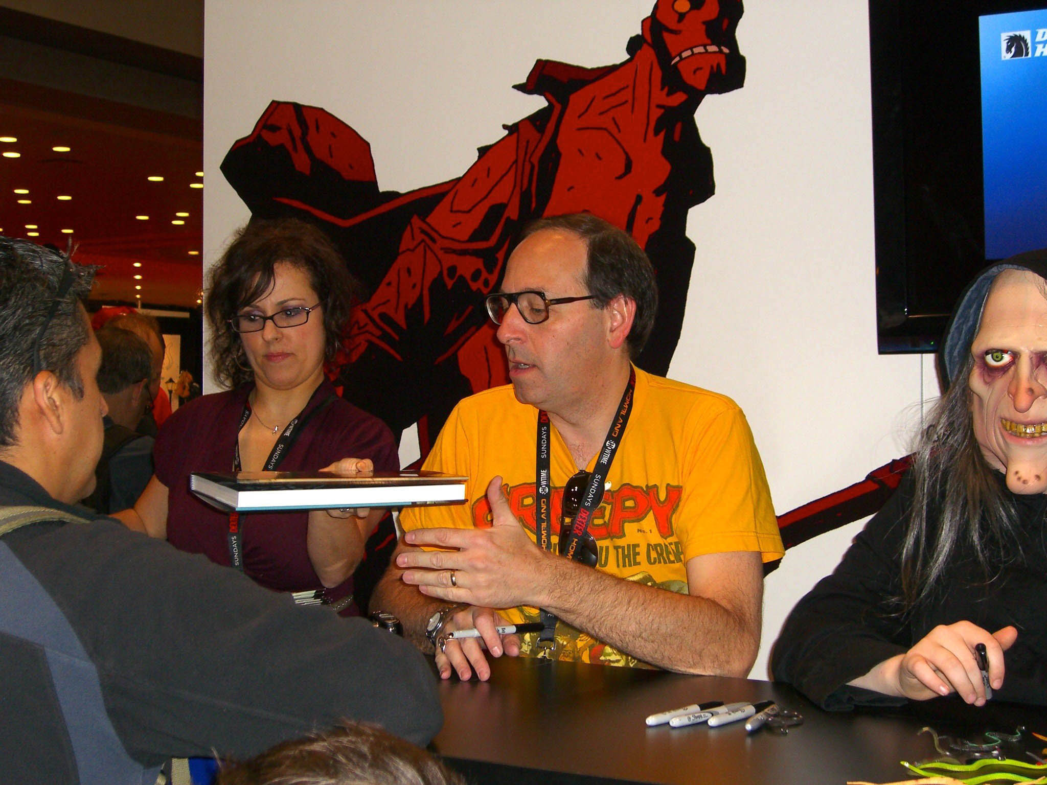 Comics creator Dan Braun signing copies of the relaunched Creepy and Eerie next to a model dressed as Uncle Creepy at the Dark Horse Comics booth during an October 16, 2011 appearance at the New York Comic Con in Manhattan. This photo was created by Luigi Novi. It is not in the public domain, and use of this file outside of the licensing terms is a copyright violation.